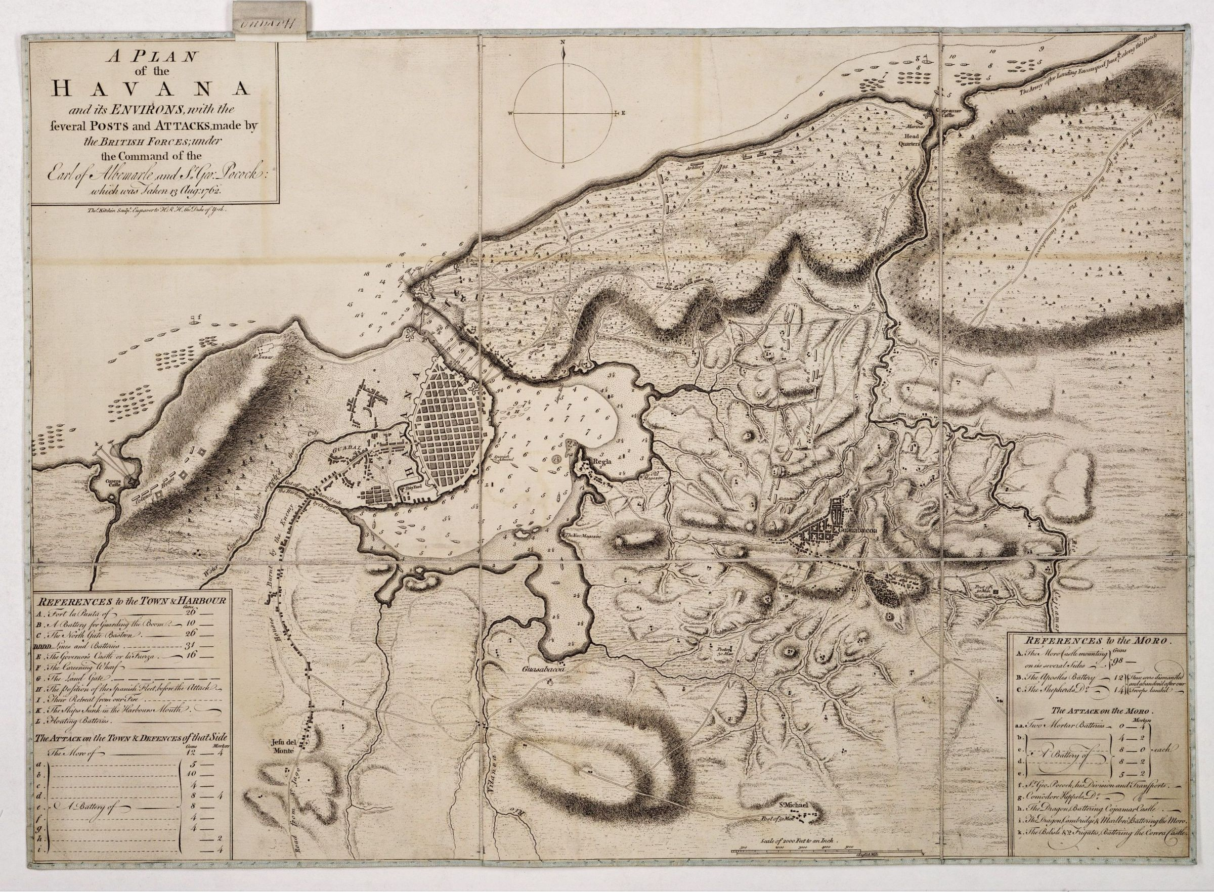 Made by the British forces; under the command of the Earl of Albemarle, and Sr George Pocock: which was taken 13 Aug: 1762.